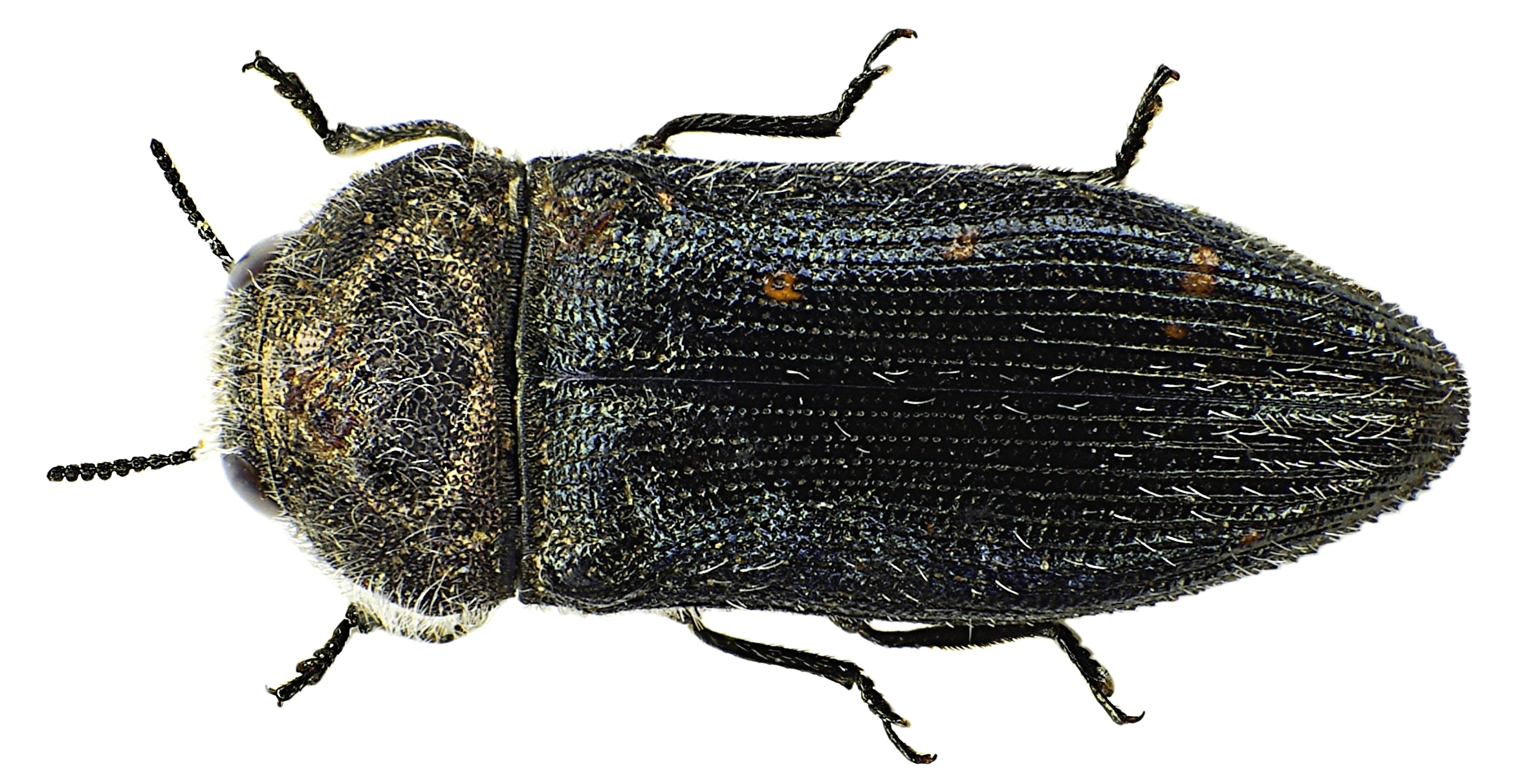 Acmaeodera brevipes from Greece